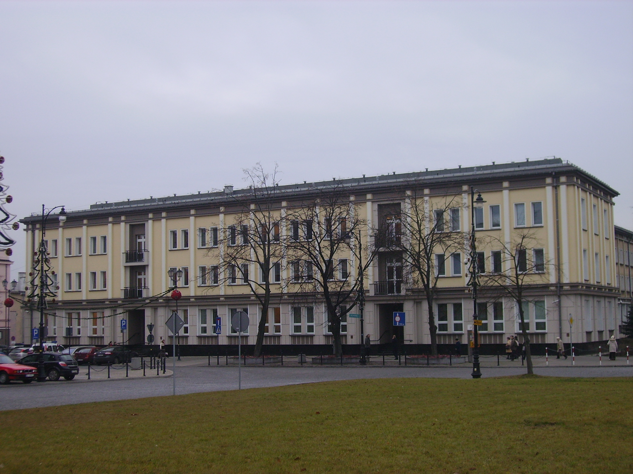 Bialystok, Suraska 3 street. District Prosecutor's Office